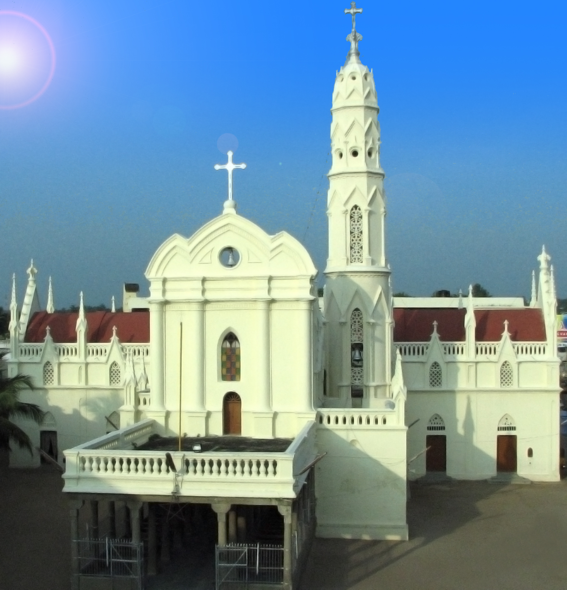 St. Xavier's Church, Kottar